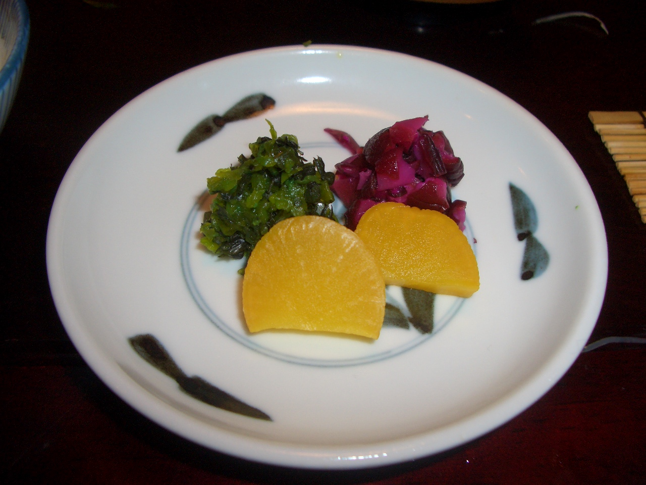 The evening we arrived in Kyoto, we had dinner at our ryokan, Motonago Ryokan, right near Yakasa Shrine. It was memorable.kaiseki ryori - Kyoto ryokan